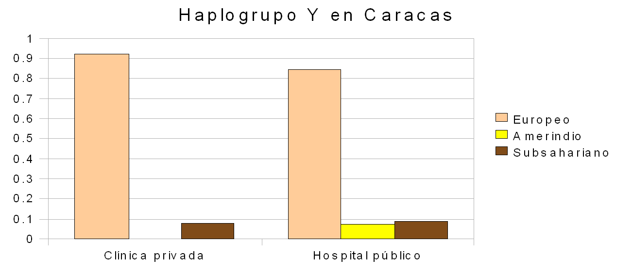 Y haplogroups in population of Caracas. IVIC study 2007